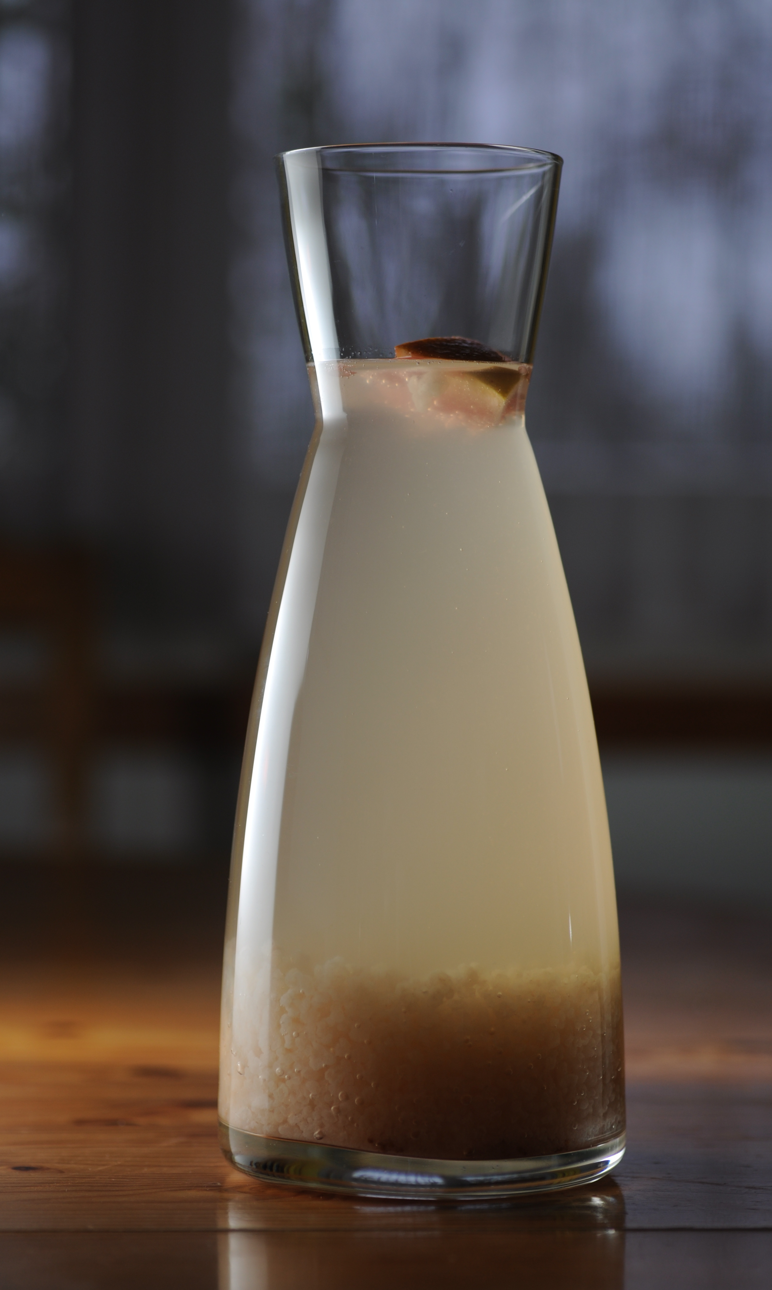 Ripe Water kefir (also known as Tibicos), after 2 days. Instead of lemon juice I've used grapefruit juice. The kefir «crystals» lie at the bottom of the glass, occasionally being carried to the surface by small carbon dioxide bubbles, and will be re-used (5 spoonful of sugar on one liter water, plus lemon juice and a fig as nitrogen source; depending on the personal taste a piece of lemon peel making the kefir bitter) after sieving it.